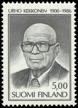 Postage stamp depicting the President of Finland Urho Kekkonen in his late years (died in 1986).